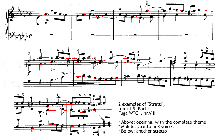 Example of stretto in music from Bach (Fugue in e flat minor, BWV 853)